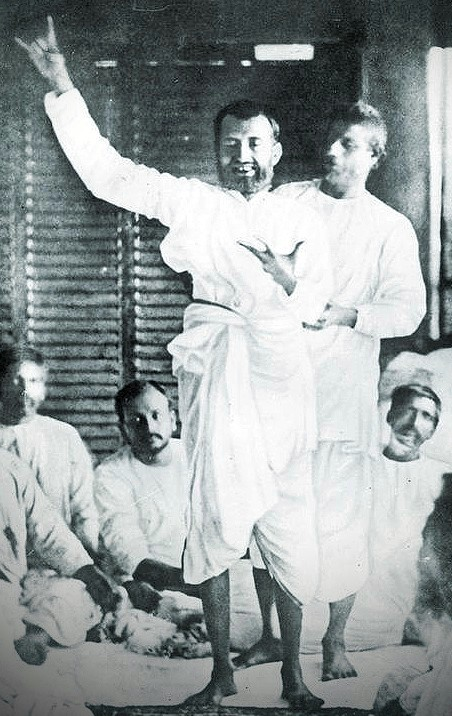 Ramakrishna in samadhi supported by his nephew Hriday and surrounded by Brahmo devotees. Photograph taken on Sunday, September 21, 1879 at the house of Keshab Chandra Sen, Calcutta.